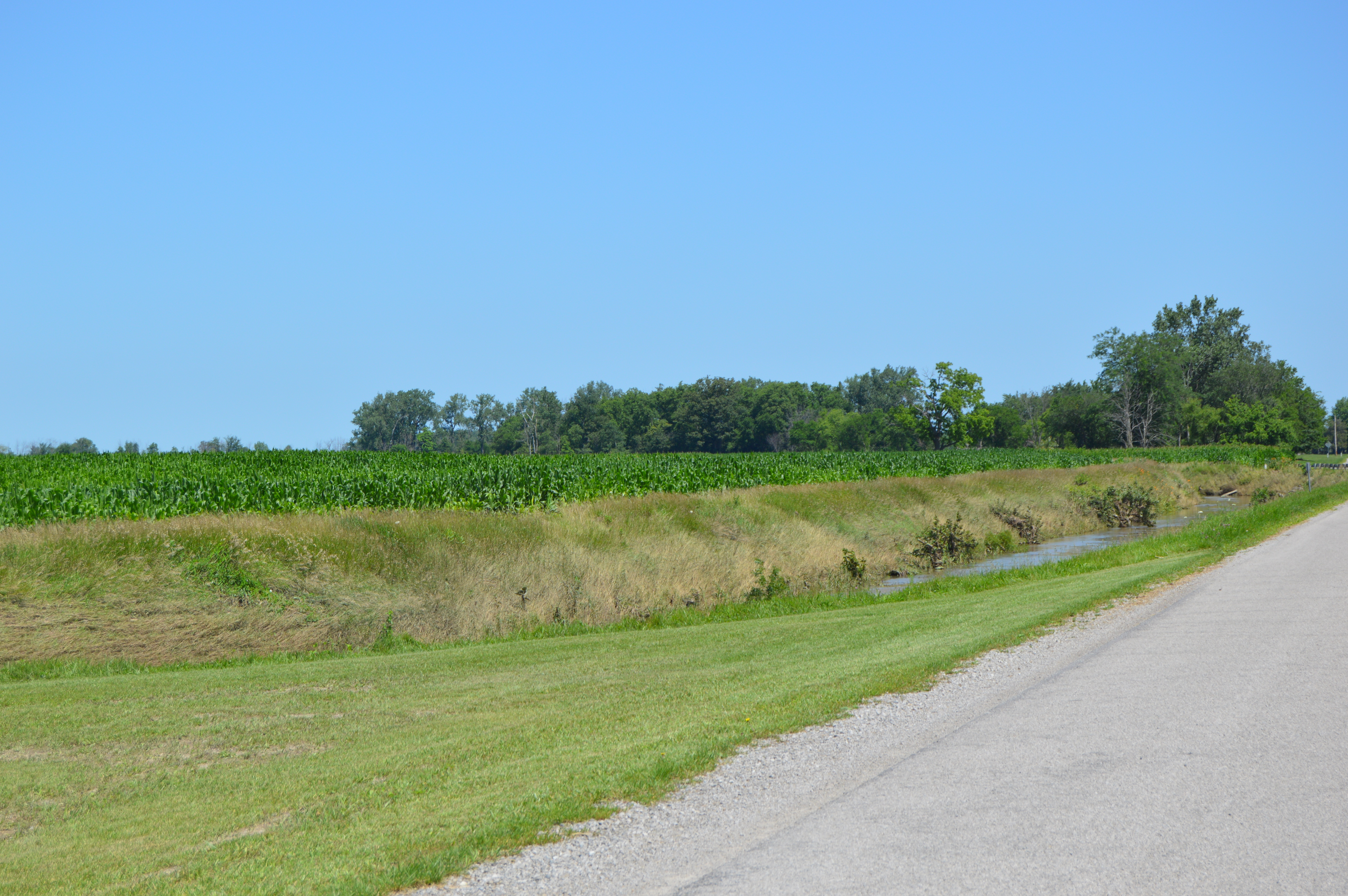 South Turkeyfoot Creek flows between 8 Road and a cornfield just north of G Road in extreme southeastern Monroe Township, Henry County, Ohio, United States.